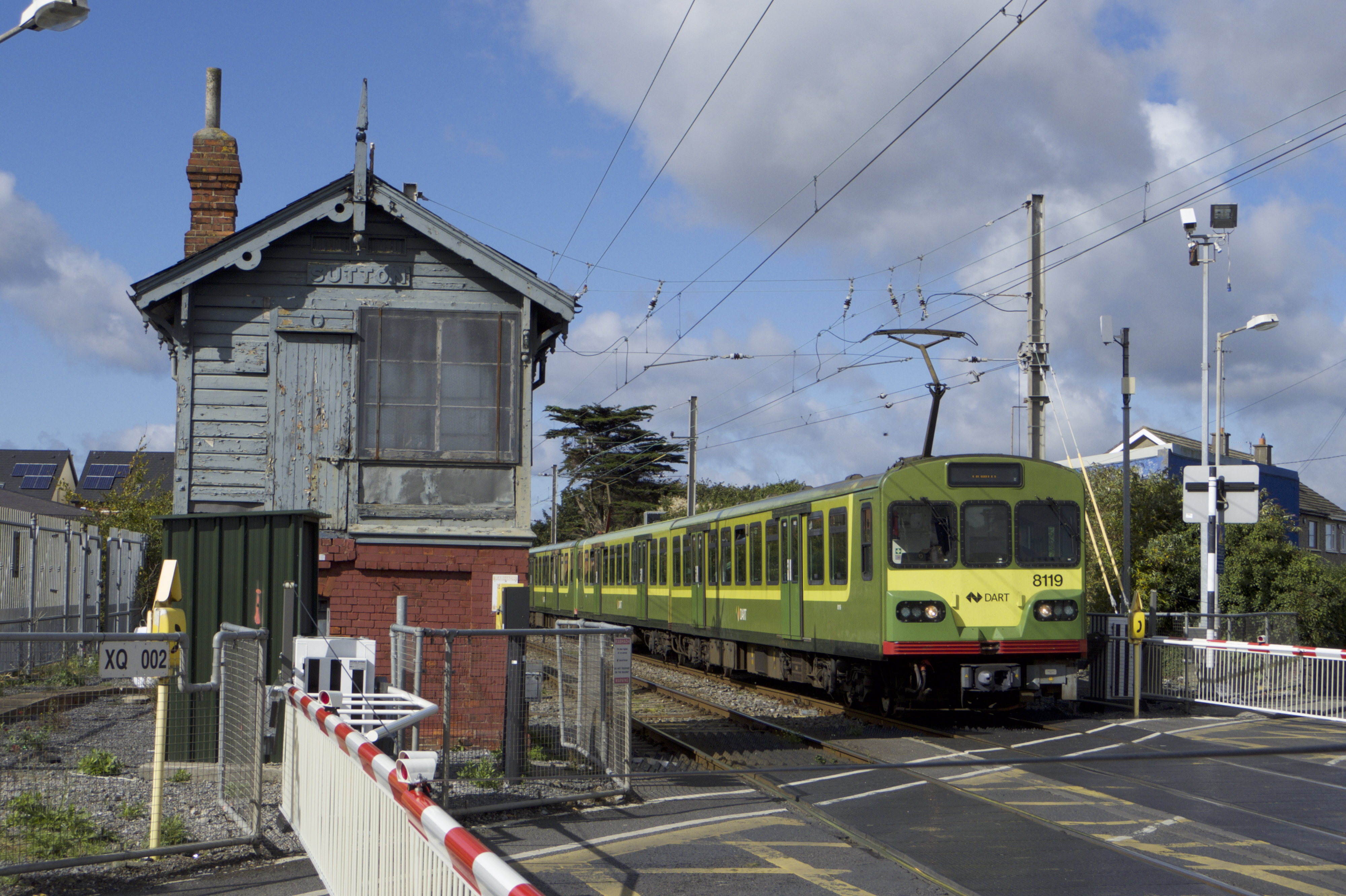 Sutton railway station, Ireland. Wikidata has entry Q3971065 with data related to this item.